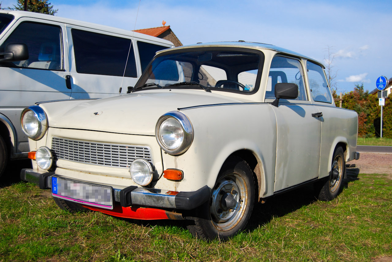 Trabant 601 deLuxe, built in 1988